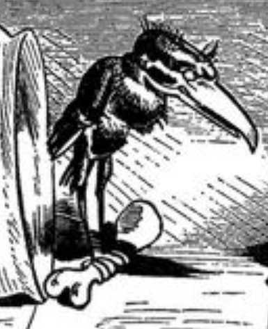 A menacing "Hans Huckebein", from Wilhelm Busch's "Hans Huckebein, the Unlucky Raven" first published in 1867.